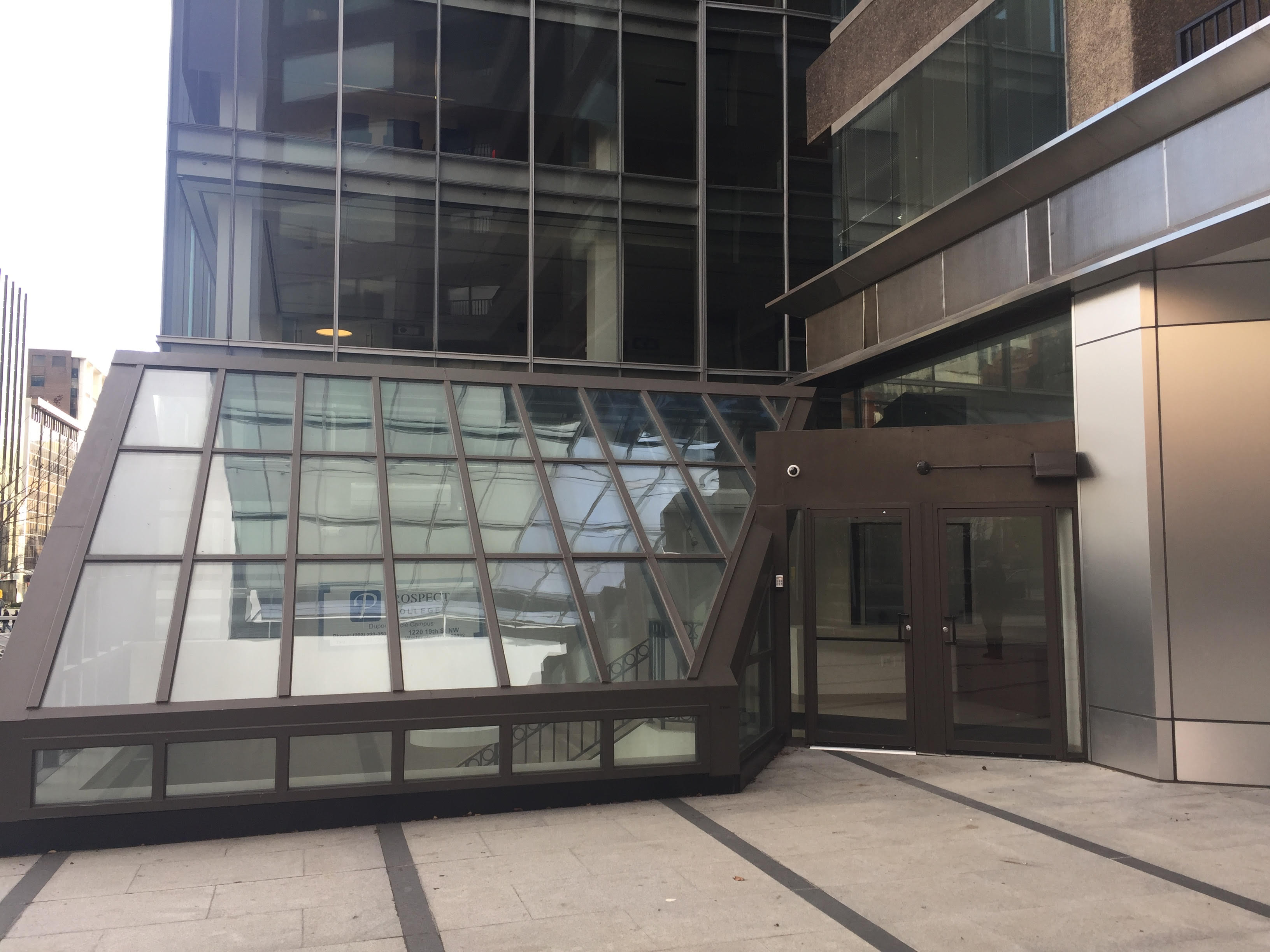 The outside of Prospect College's Dupont Campus Extension location.